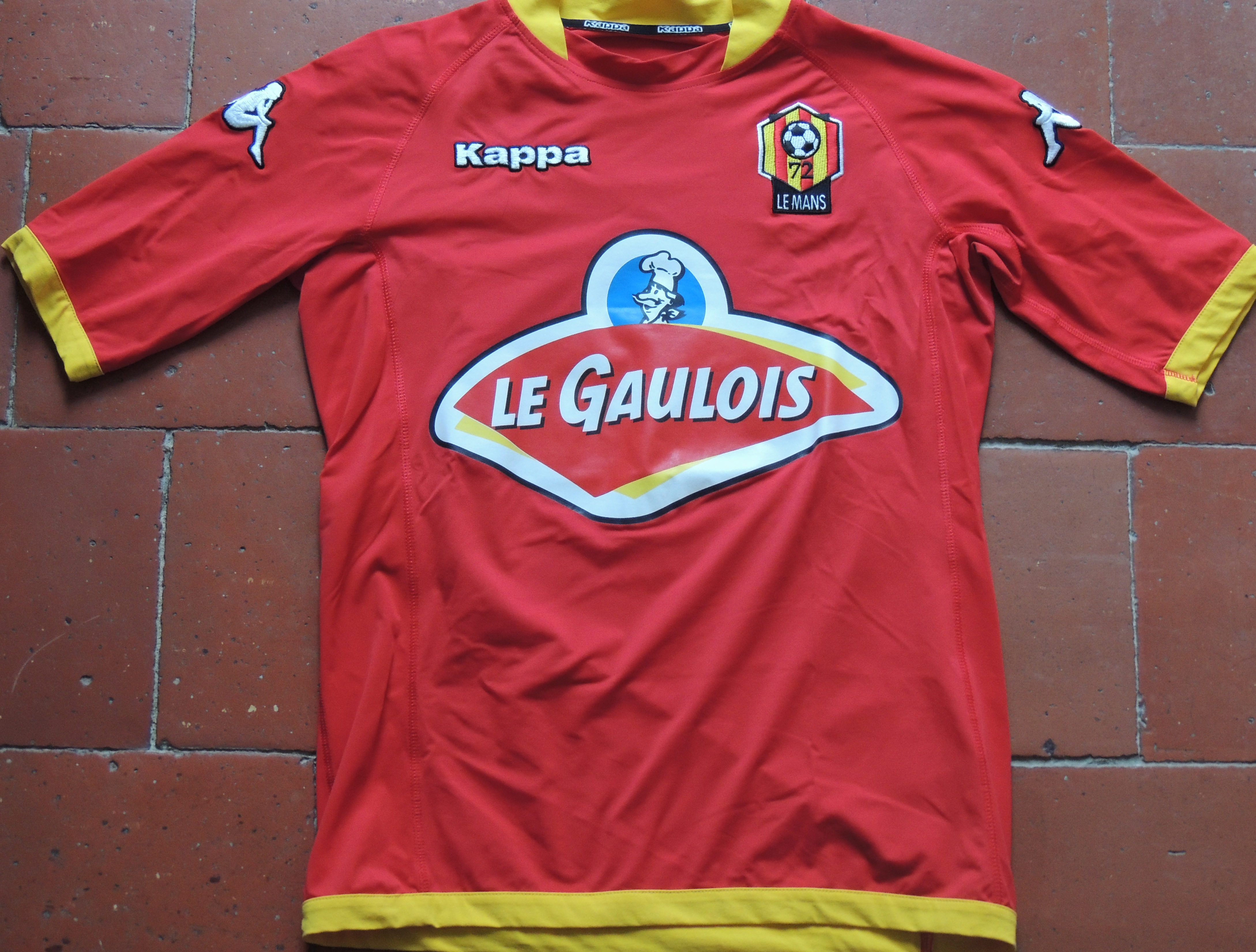 Maillot domicile du MUC 72 pour la saison 2005/2006.